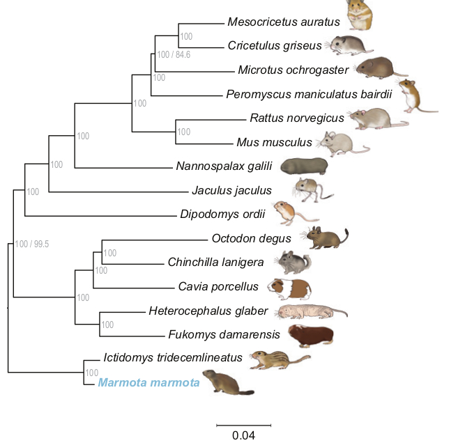 The phylogenetic tree was derived from multiple whole-genome alignments of protein-coding and noncoding sequences from available rodent genomes (about 94 Mbp alignment per species) [1]